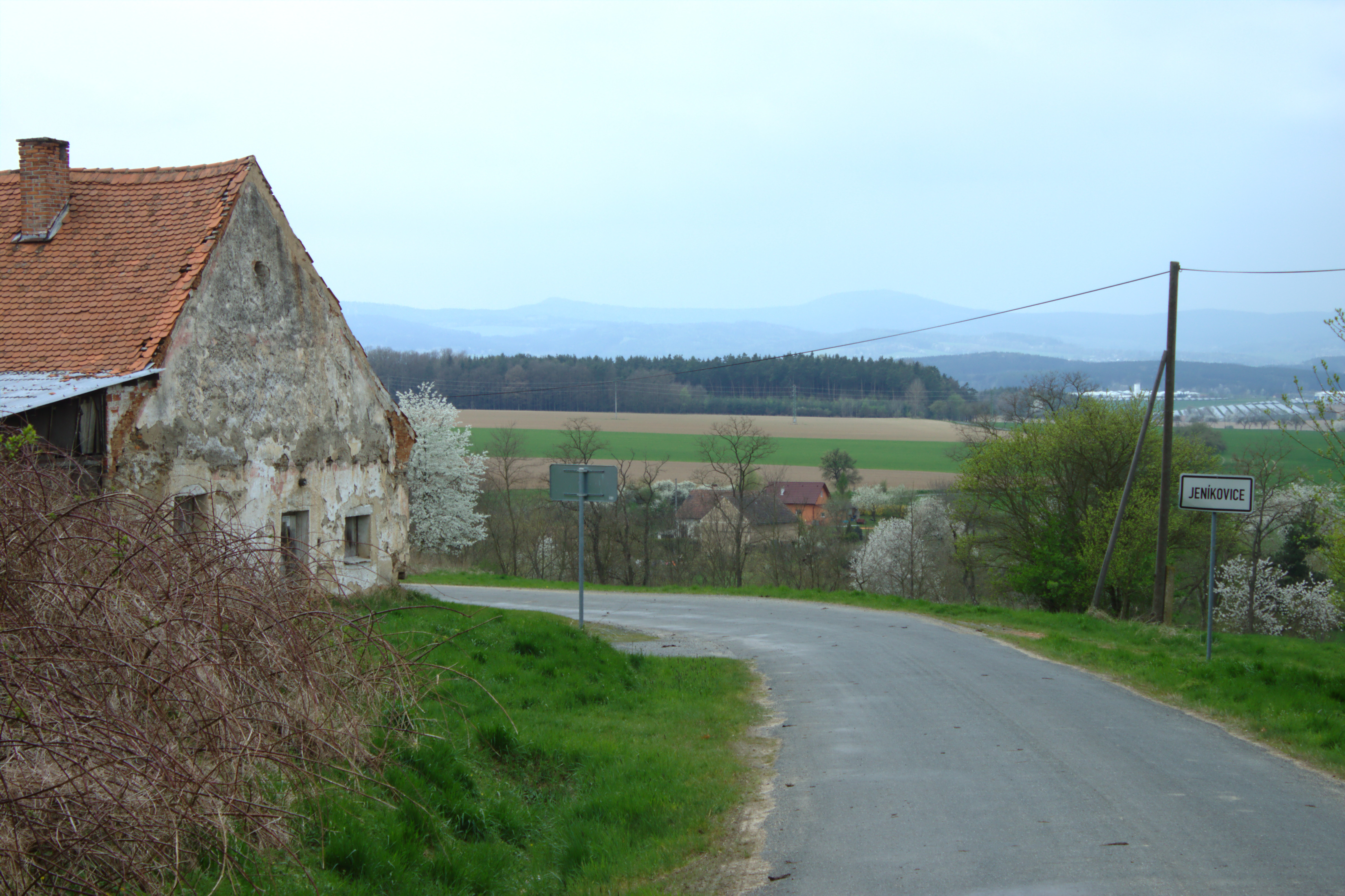 A turn at the eastern edge of the village of Jeníkovice, Plzeň Region, CZ